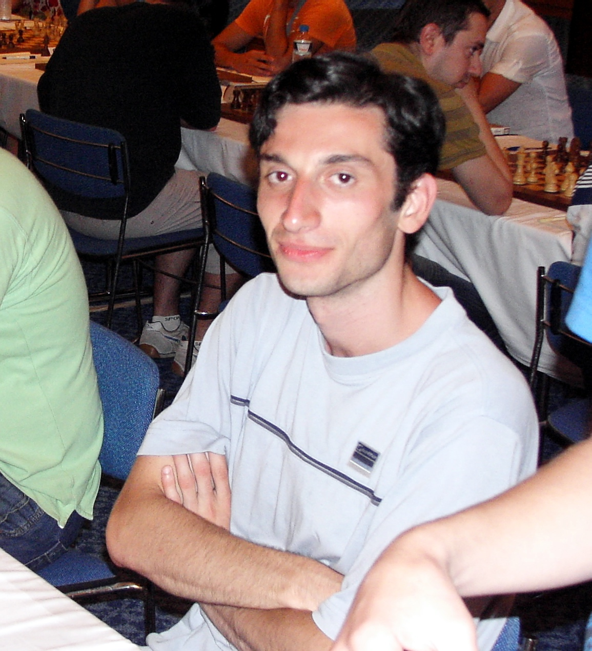 GM Baadur Jobava Georgia